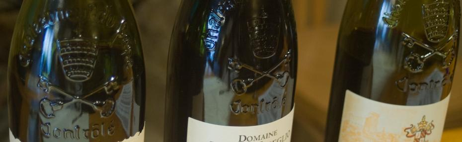 Several French wines from the southern Rhone wine region all featuring the embossed papal crest that are unique to wine bottles from Chateauneuf du Pape.